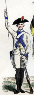 Régiment du Dauphin fusilier's uniform in 1789.